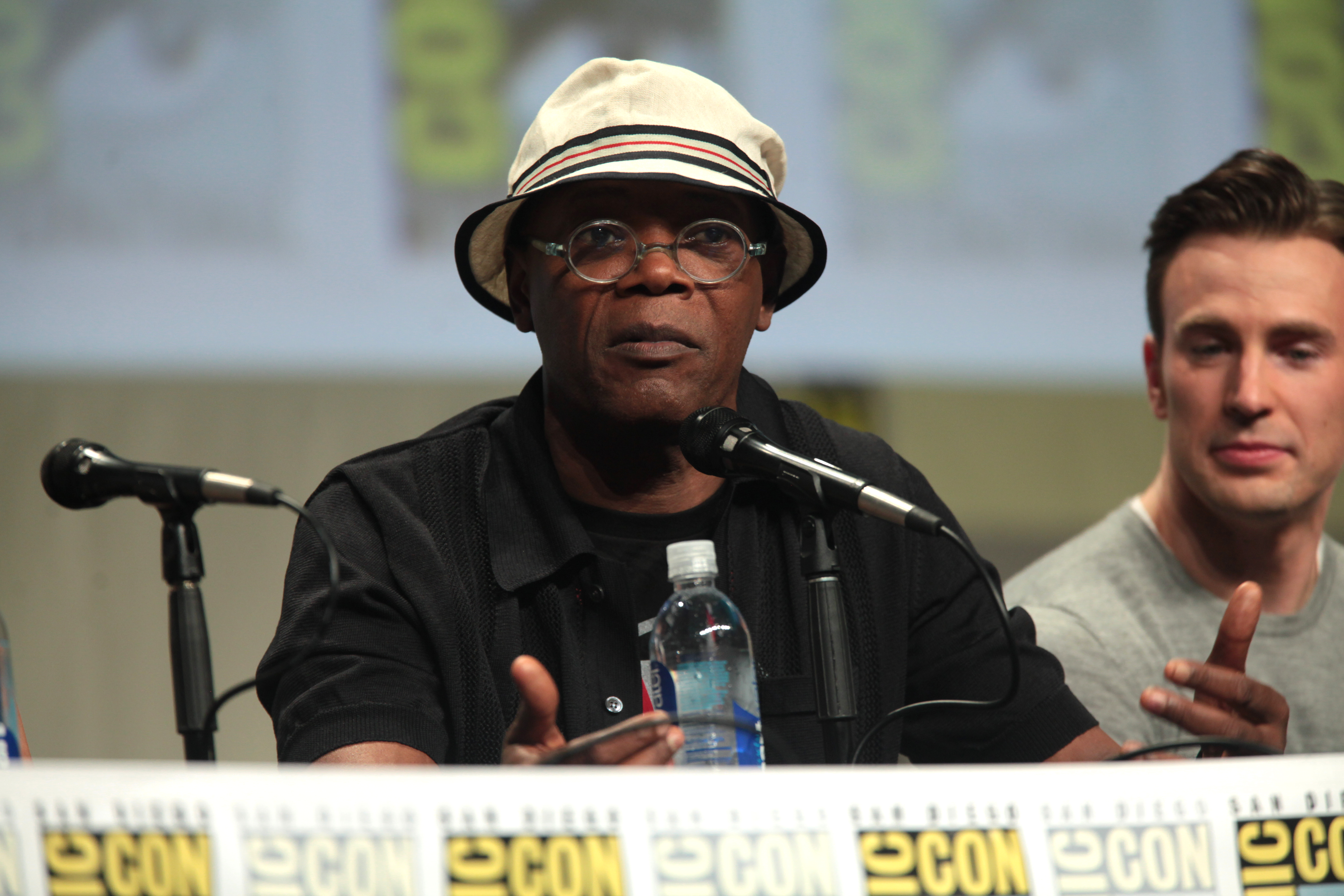 Samuel L. Jackson speaking at the 2014 San Diego Comic Con International, for "Avengers: Age of Ultron", at the San Diego Convention Center in San Diego, California.